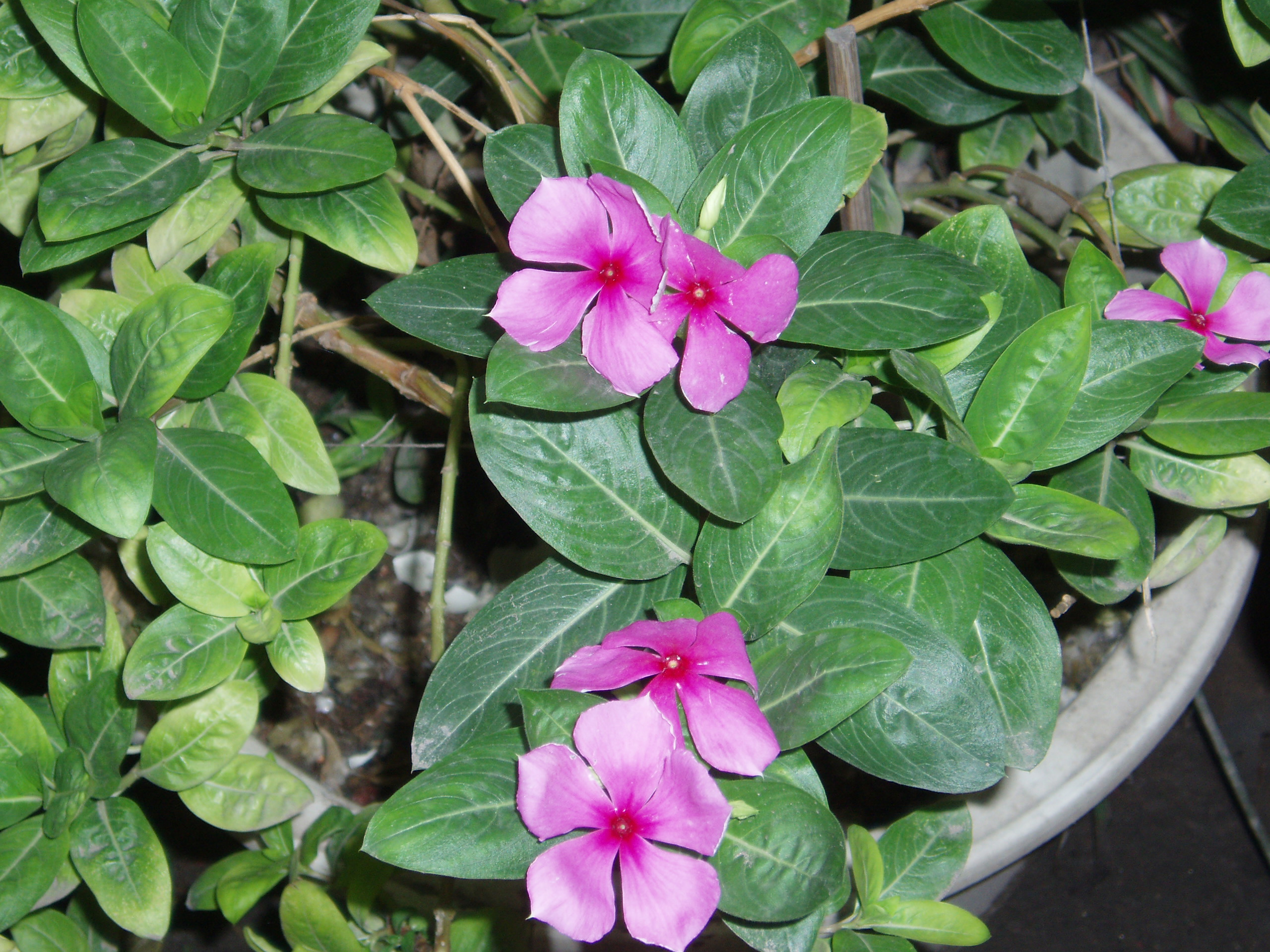 Vinca flowers